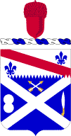 018th Infantry Regiment Coat of Arms